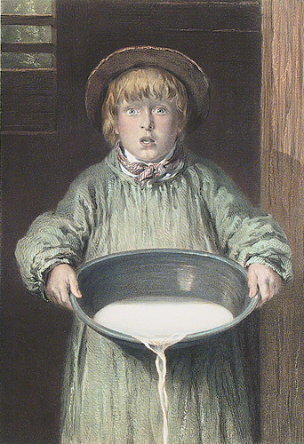 Astonishment. Hand-colored lithograph by Thomas Fairland after W. H. Hunt, original watercolor, 1839, lithograph c. 1840s